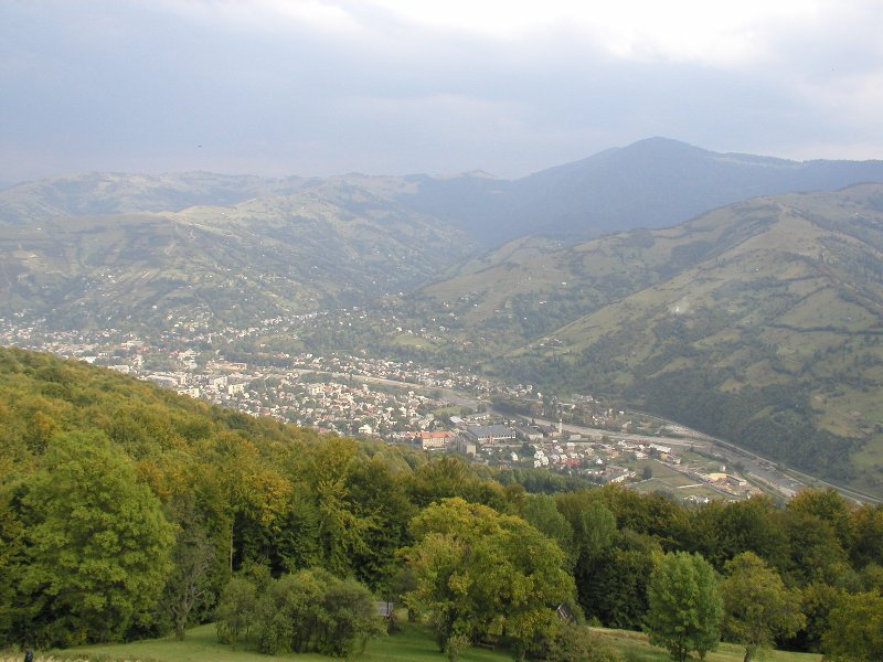 Panoramic view of Rakhiv with the Tisza river (Transcarpathian region, Ukraine)